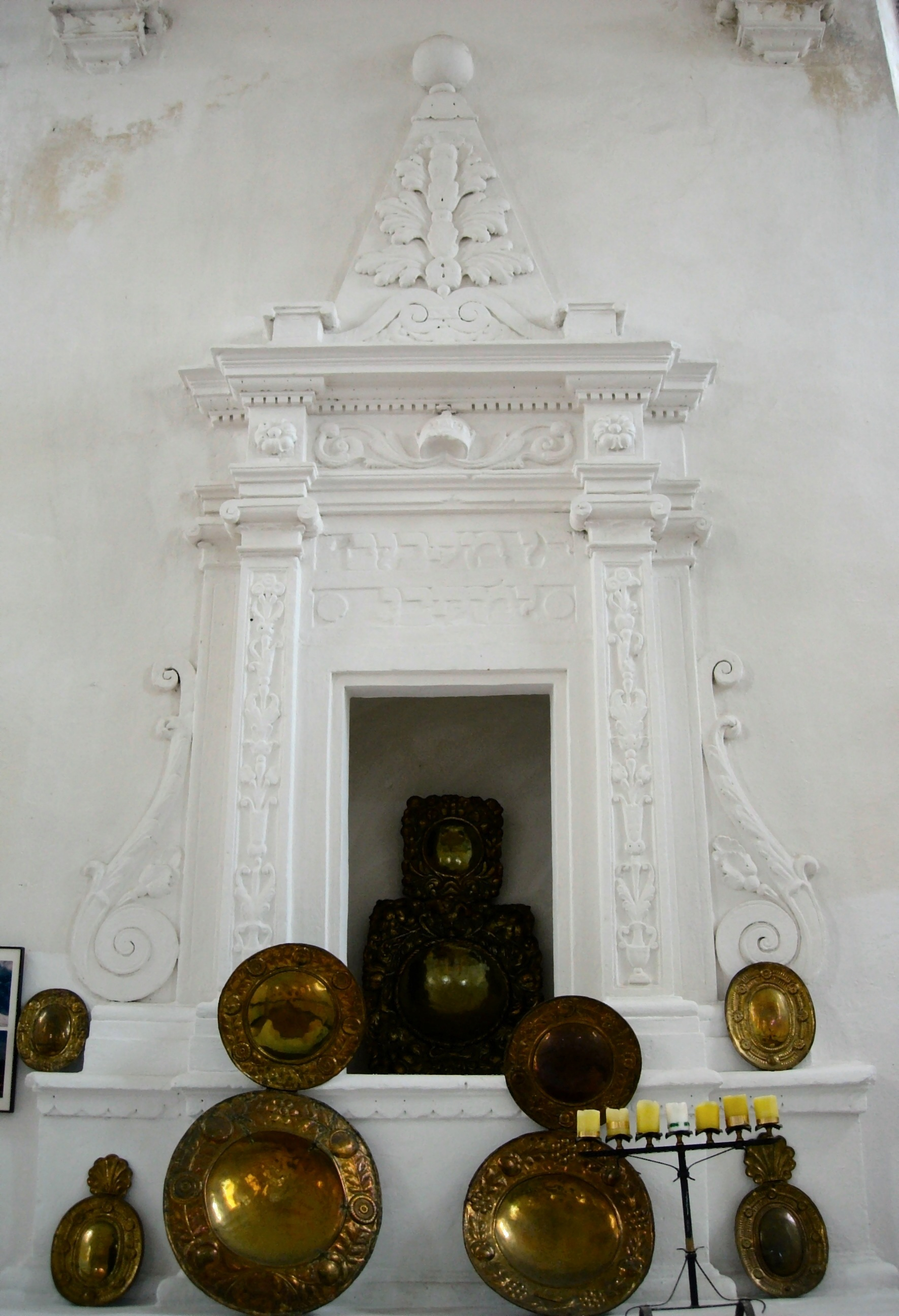 Aron Kodesh of the synagogue in Szydłów, Poland